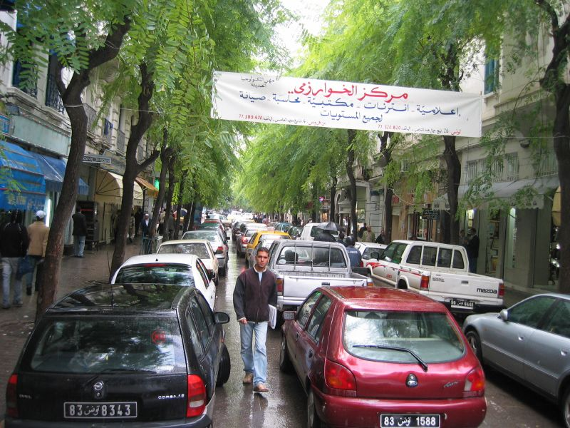 A street of Tunis (Rue Jamel Abdennasser) after a brief shower, Tunis, Tunisia